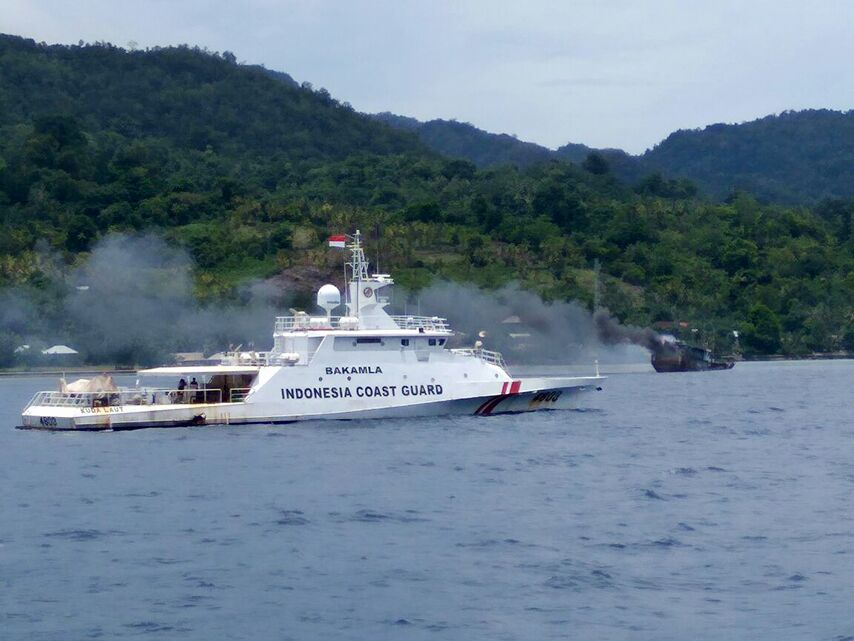 KN Kuda Laut of the Indonesian Maritime Security Board